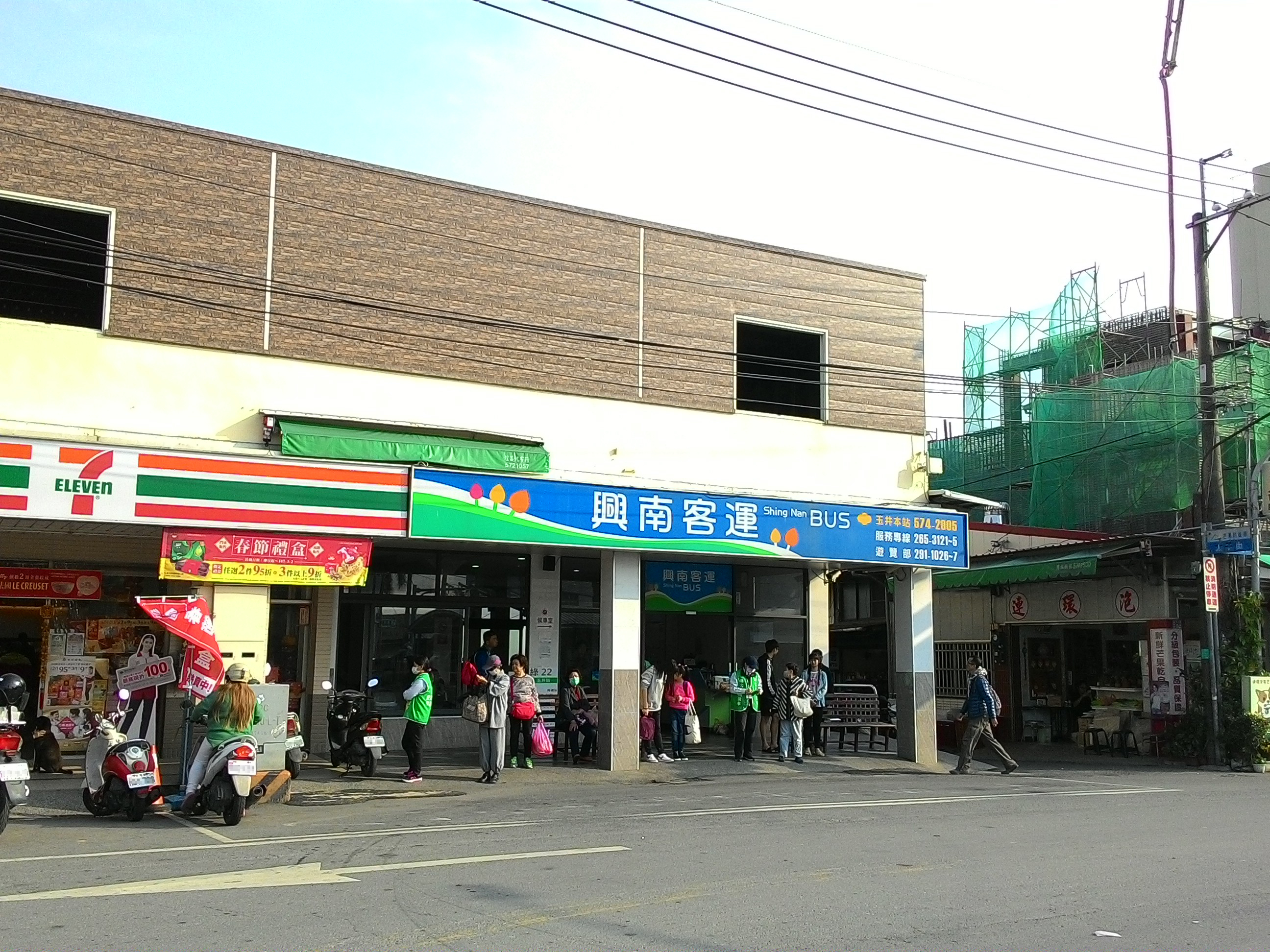 Shing Nan Bus Yujing Station